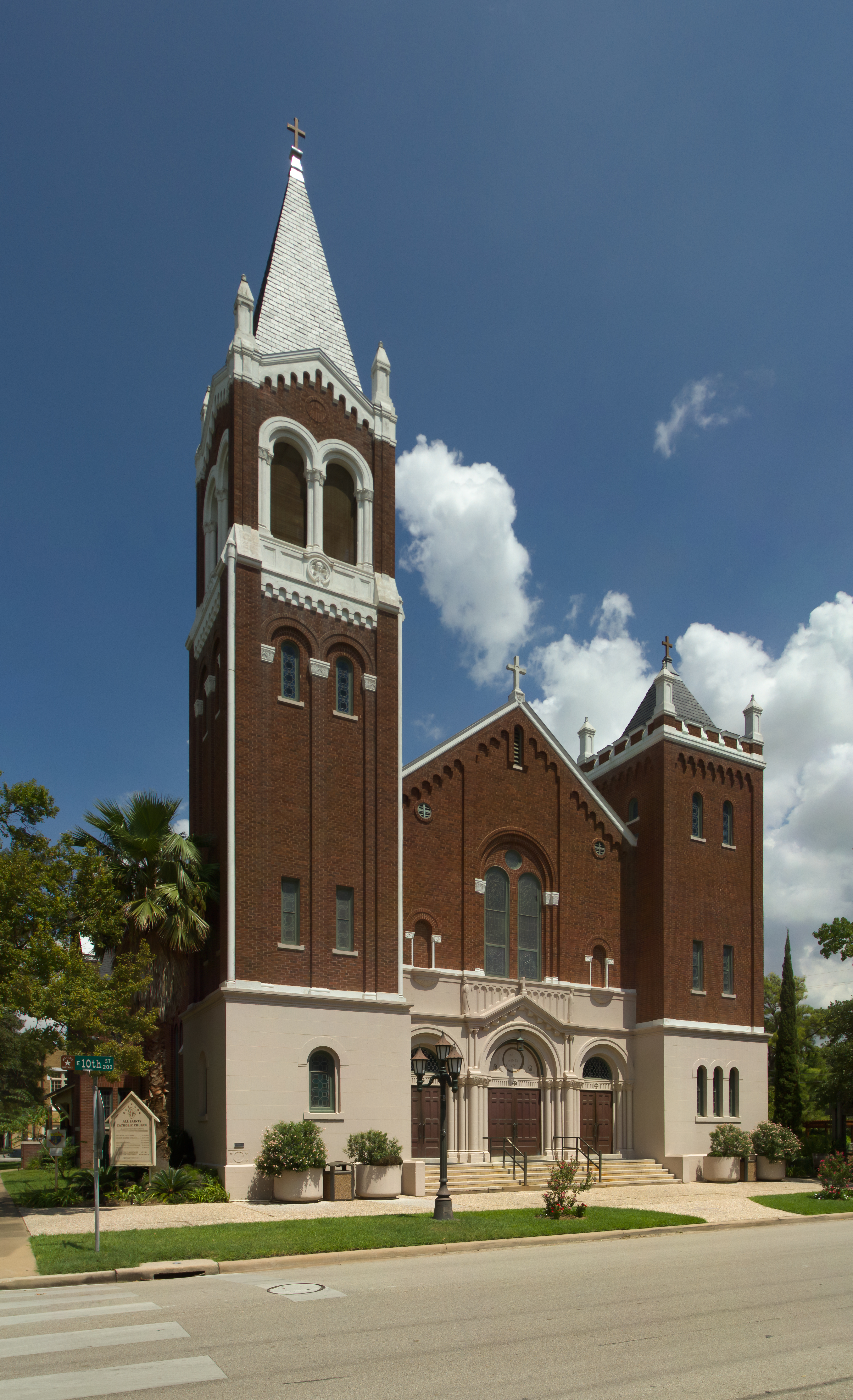 All Saints Catholic Church at 201 E. 10th St. in Houston, TX